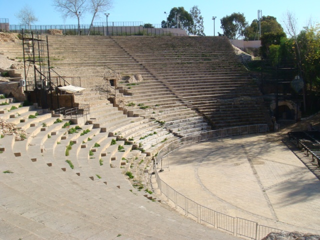 Roman Theater of Carthage